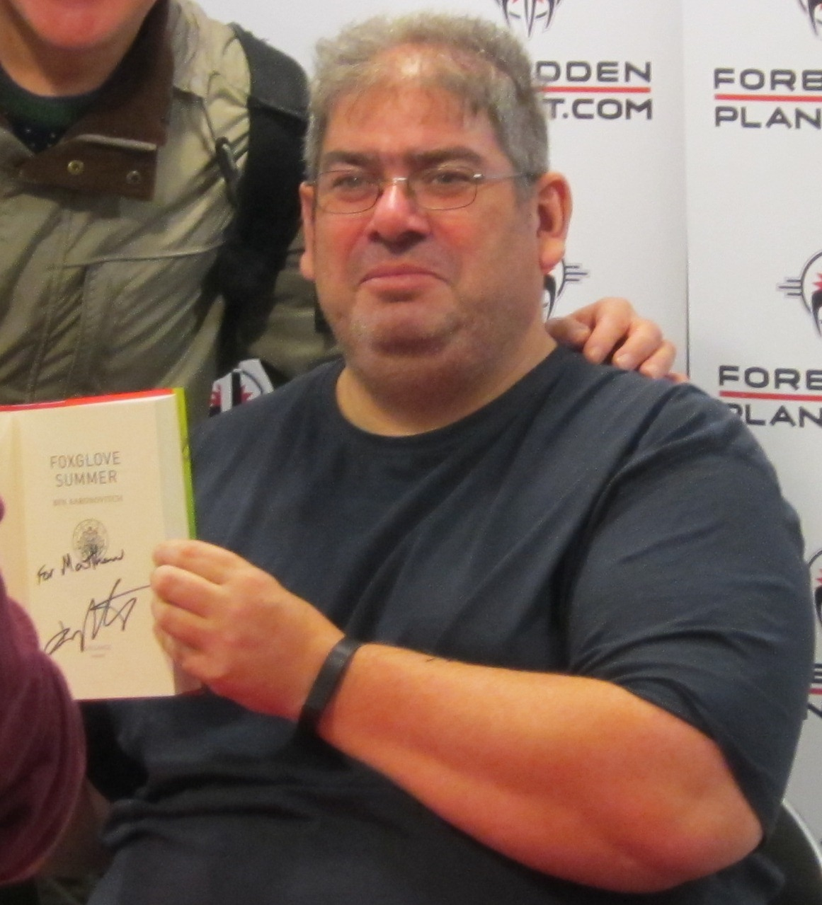 Ben Aaronovitch signing his new book at Forbidden Planet on 10 November 2014.